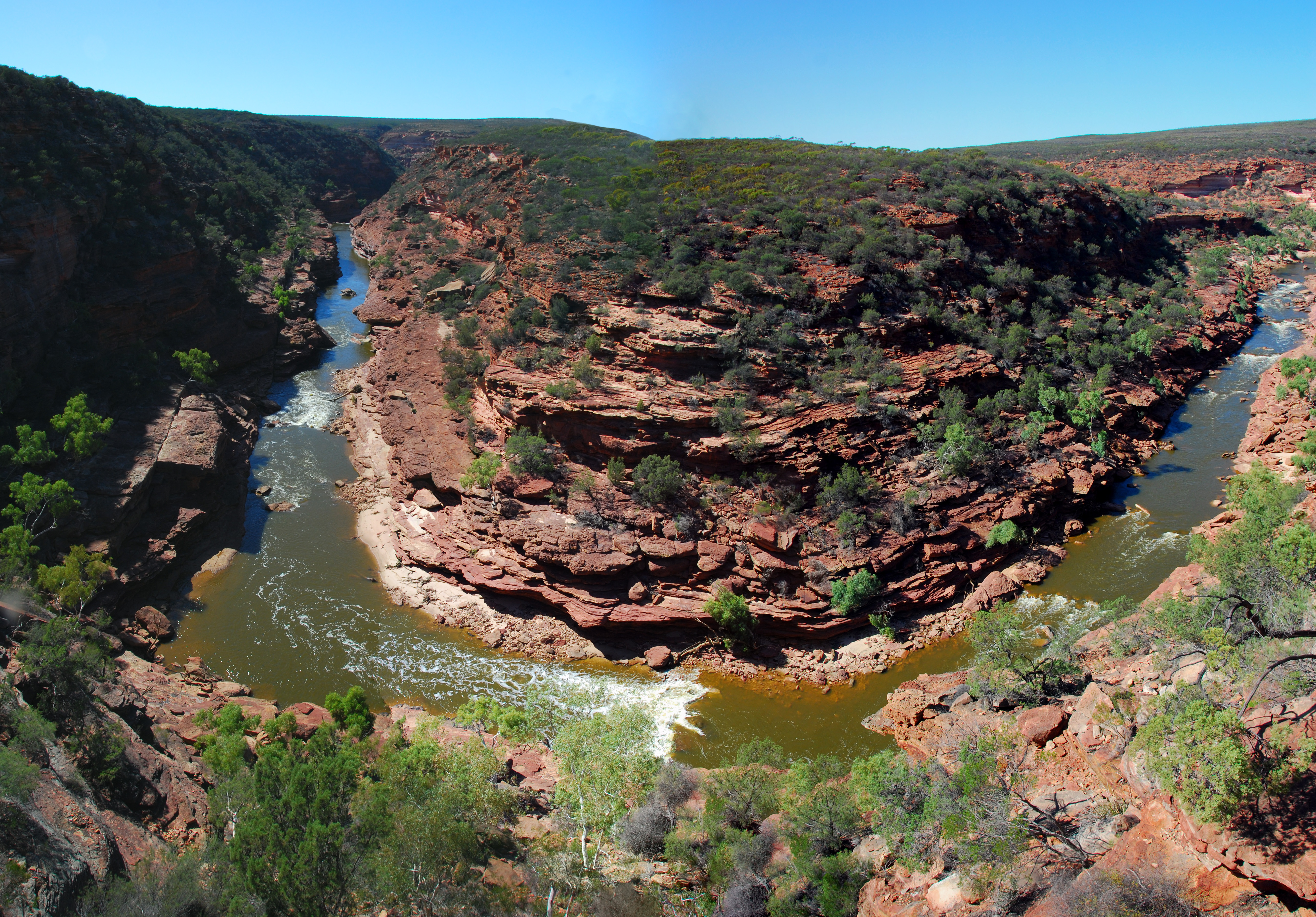 This is a photograph of the Murchison Gorge from the Z Bend lookout.